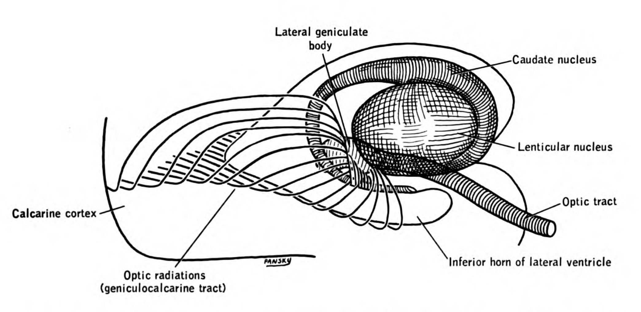 Anatomical illustration of the human nervous system from the 1960 book A functional approach to neuroanatomy